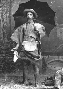 An Explorer from Japan,笹森儀助（Gisuke Sasamori.1845 - 1915）